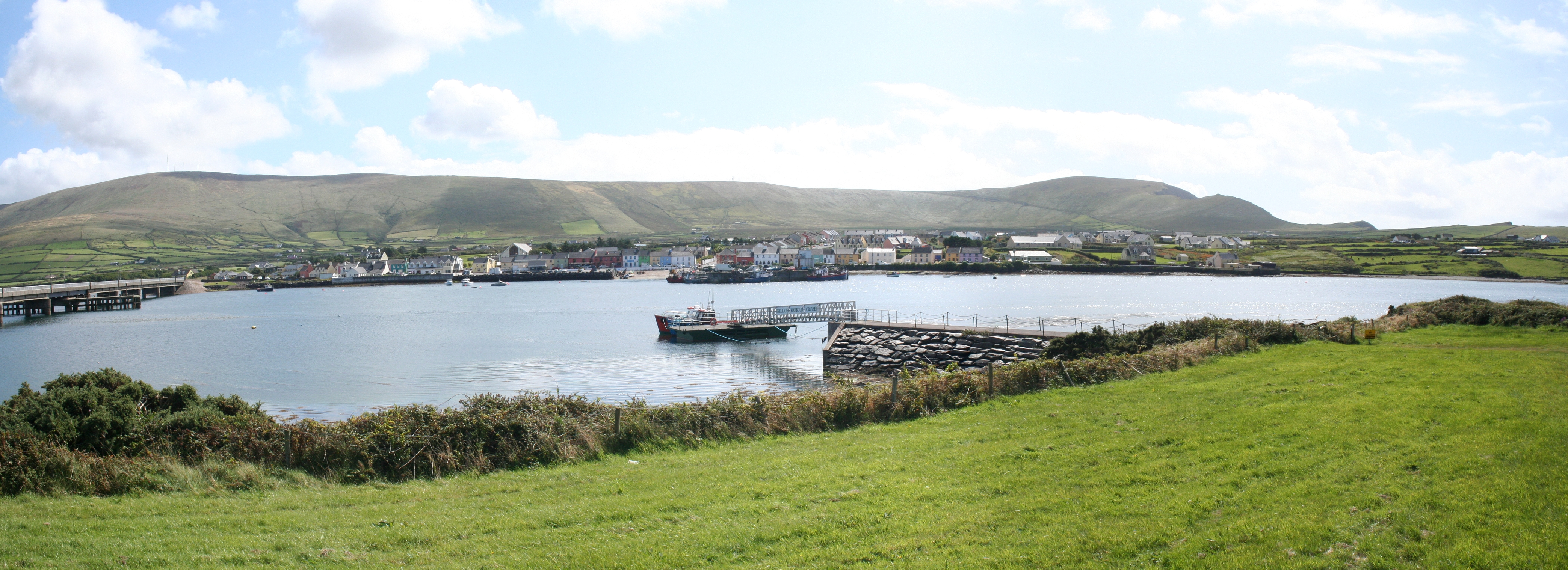 Portmagee / Iveragh Penninsula / County Kerry / Ireland